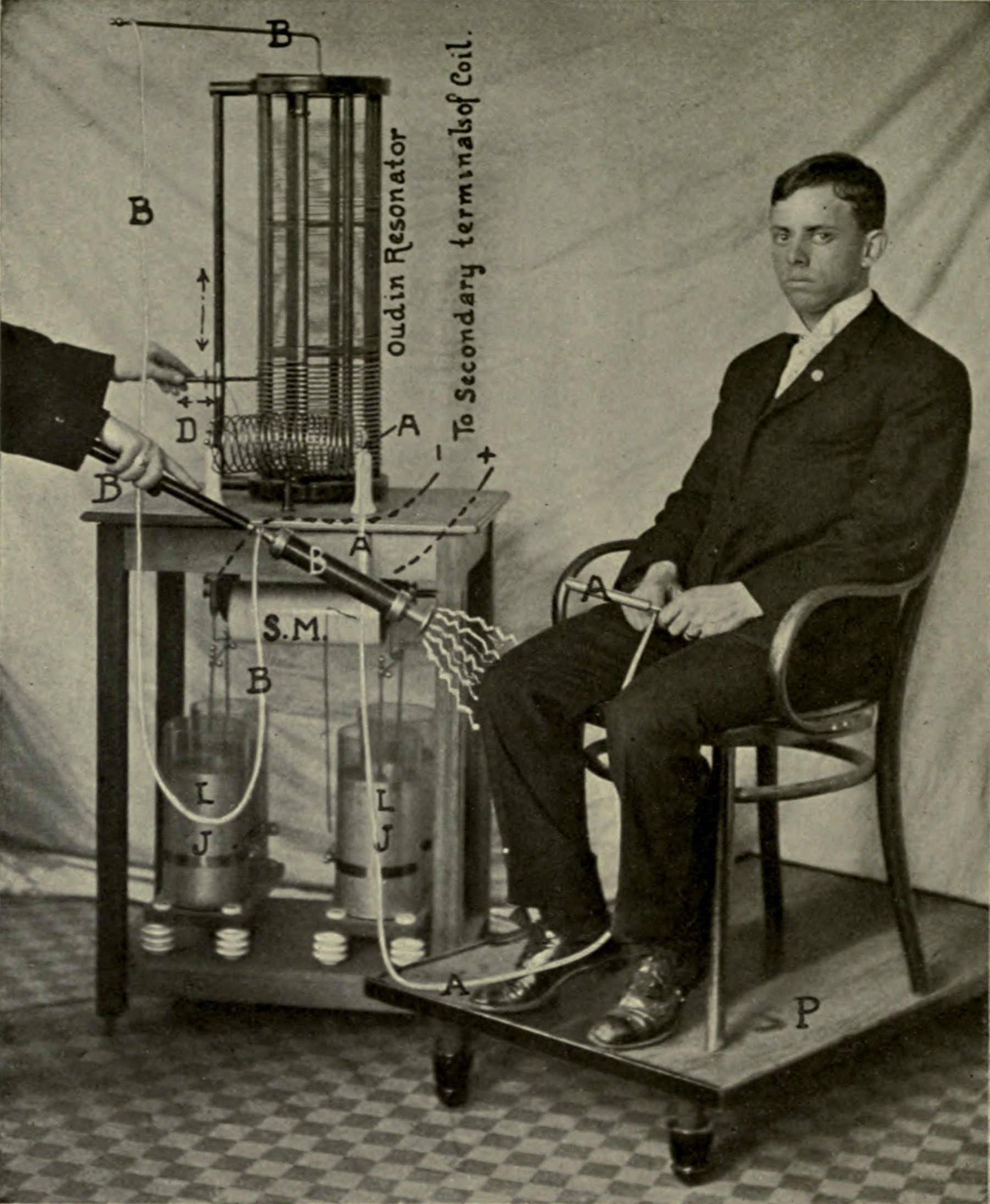 An Oudin coil used for 'electrotherapy' treatment of a patient's knee around 1907. The Oudin coil (left), invented in 1893 by physician Paul Marie Oudin, was a spark-excited resonant transformer circuit similar to a Tesla coil which generated very high voltage, low current radio frequency electricity, used until perhaps 1925 in the Victorian era field of electrotherapy. The doctor holds an insulated electrode with sharp metal points (B) connected to the top high voltage terminal of the coil, which produced a luminous "brush" discharge (called "effluves") which was directed toward the patient's knee. The patient holds a ground electrode (A) attached to the bottom of the coil which made a return path for the current. The apparatus which drives the coil, a spark gap (S.M.) and two Leyden jar capacitors (L.J.), can be seen below the coil. Note the doctor's other hand (D, left) adjusting the tap on the coil. The motion of the electrode changed the capacitance of Oudin coils, throwing them out of resonance, so during use they had to be constantly adjusted to keep them in "tune". Photo caption: "Treatment by the effluvation method. The condenser electrode, B, is in connection with the top of the resonantor. Patient is seated upon an insulated platform, holding the electrode, A, which is the other pole, from the outer side of the Layden jar, L J. (By groudning the outer side of the Leyden jar, A, the patient's insulation is unnecessary and better effiuavation is attained.) S.M. is the spark-gap."